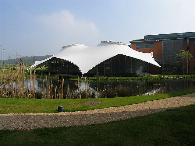 Newbury: New Vodafone Headquarters. This HQ is situated in the north western section of the grid square and the picture was taken from the west side of the building. Most of this square is residential with some farmland and some commercial activity.